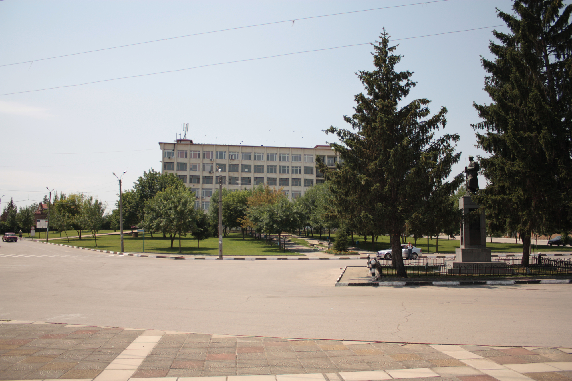 Letnitsa central square with the Municipality building an a war memoreal